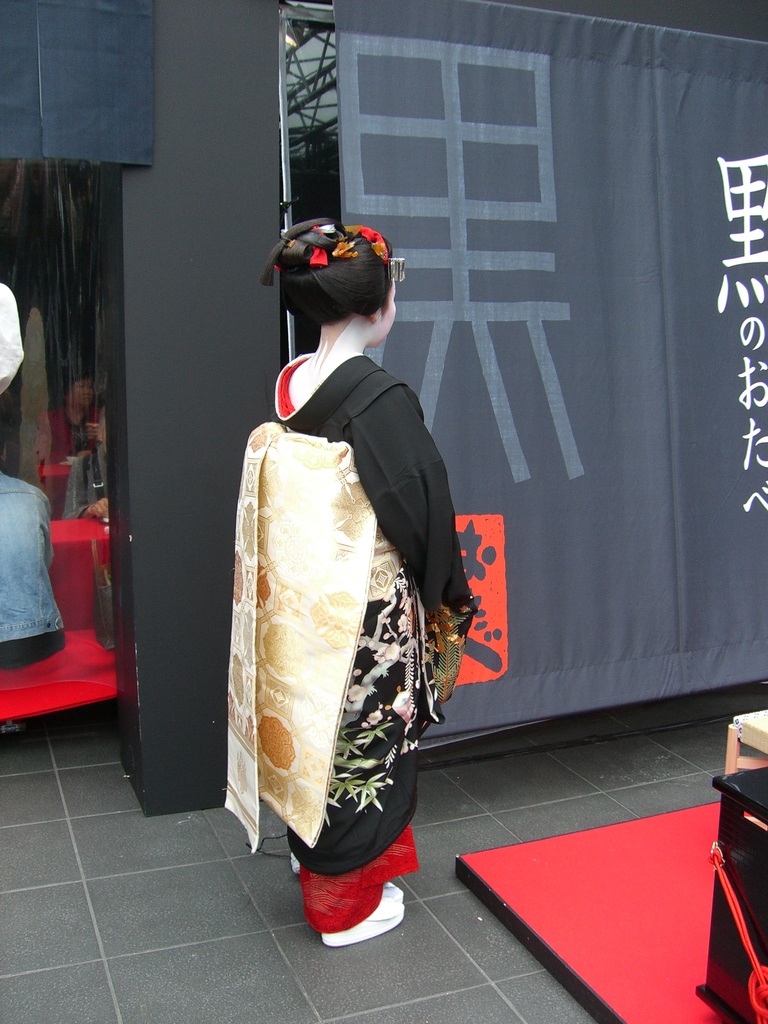 A maiko wearing a kimono, showing the obi Geisha in Kyoto 舞妓 2 : Suzuha 寿々葉